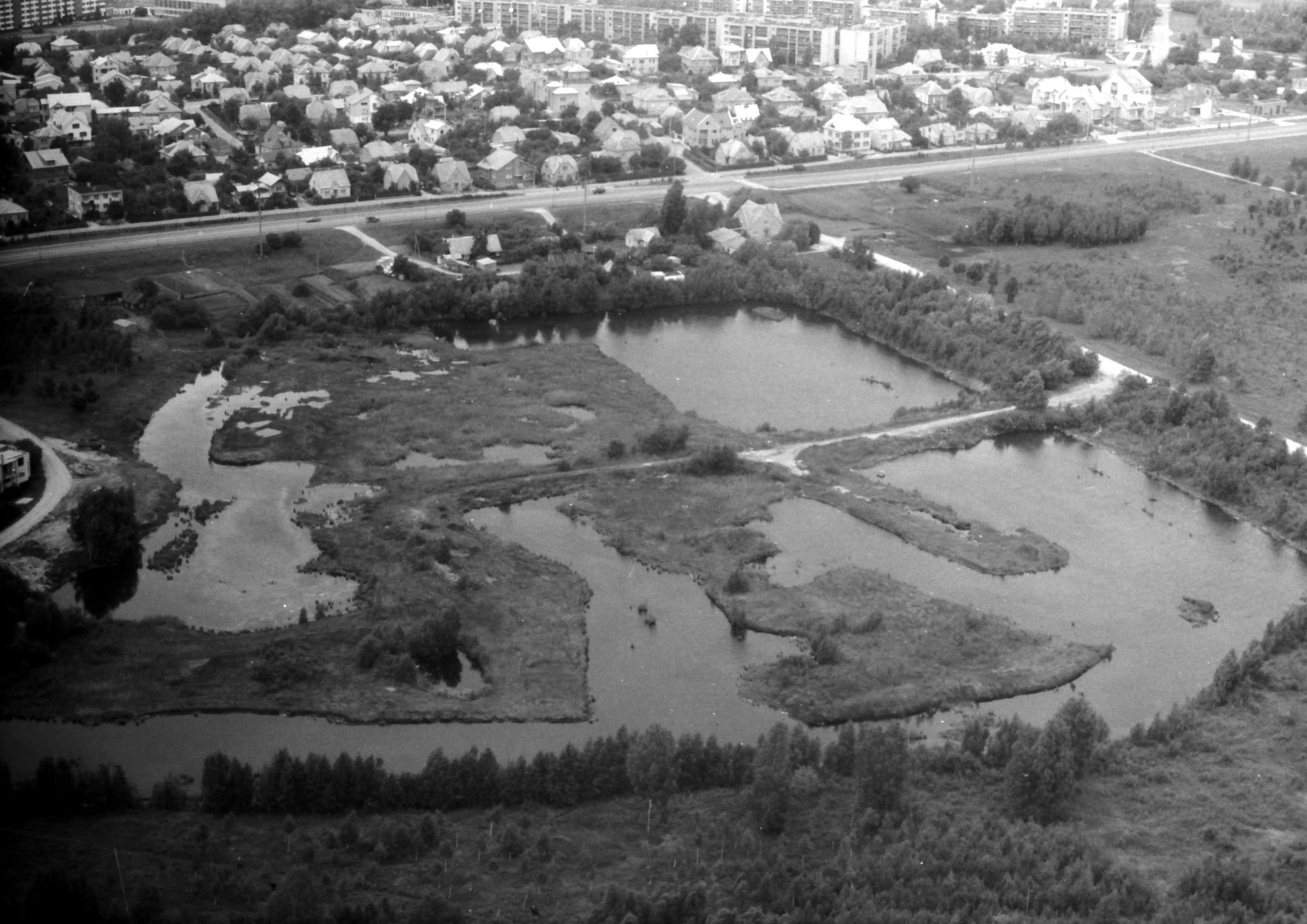 Šimšė in Šiauliai, Lithuania